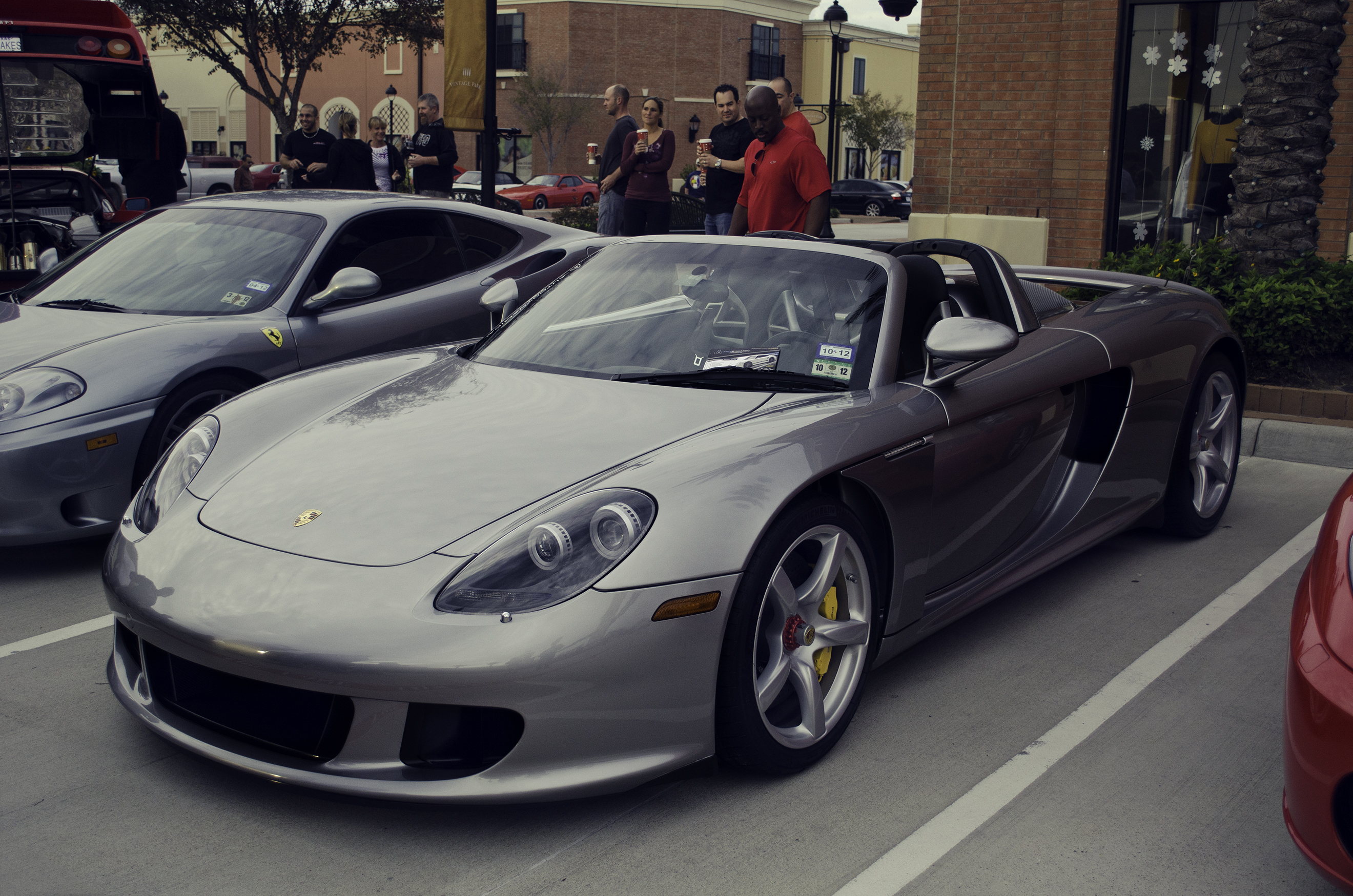 Houston Coffee and Cars December 2011